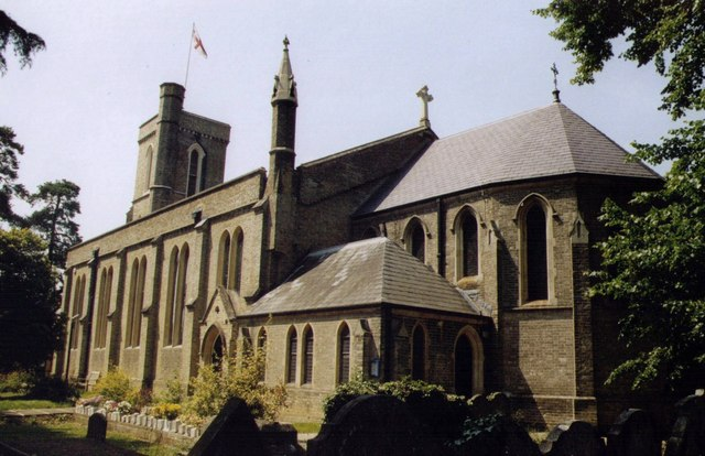 St Paul, Addlestone Built in 1836.